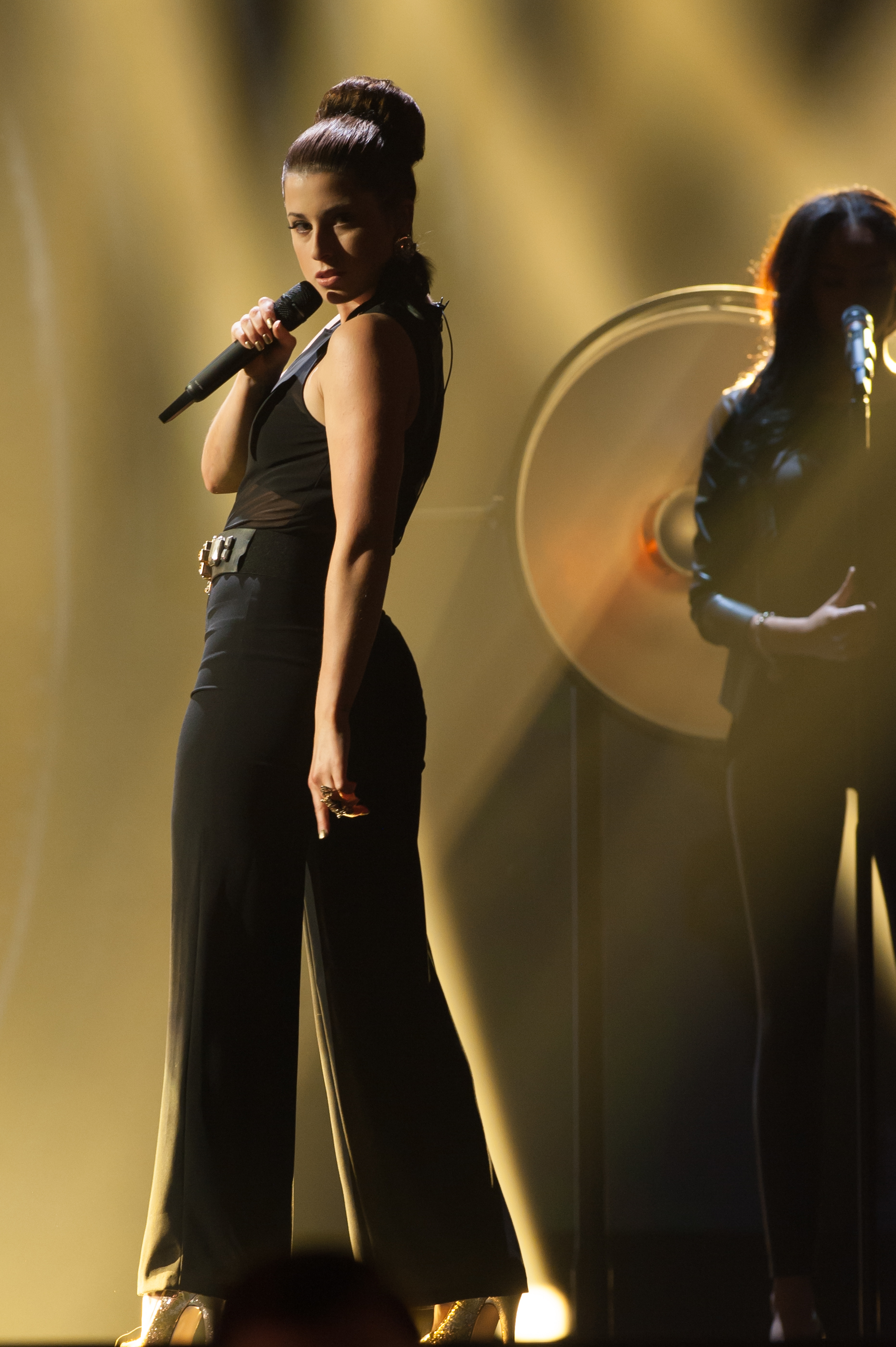 Eurovision Song Contest Vienna 2015: Ann Sophie